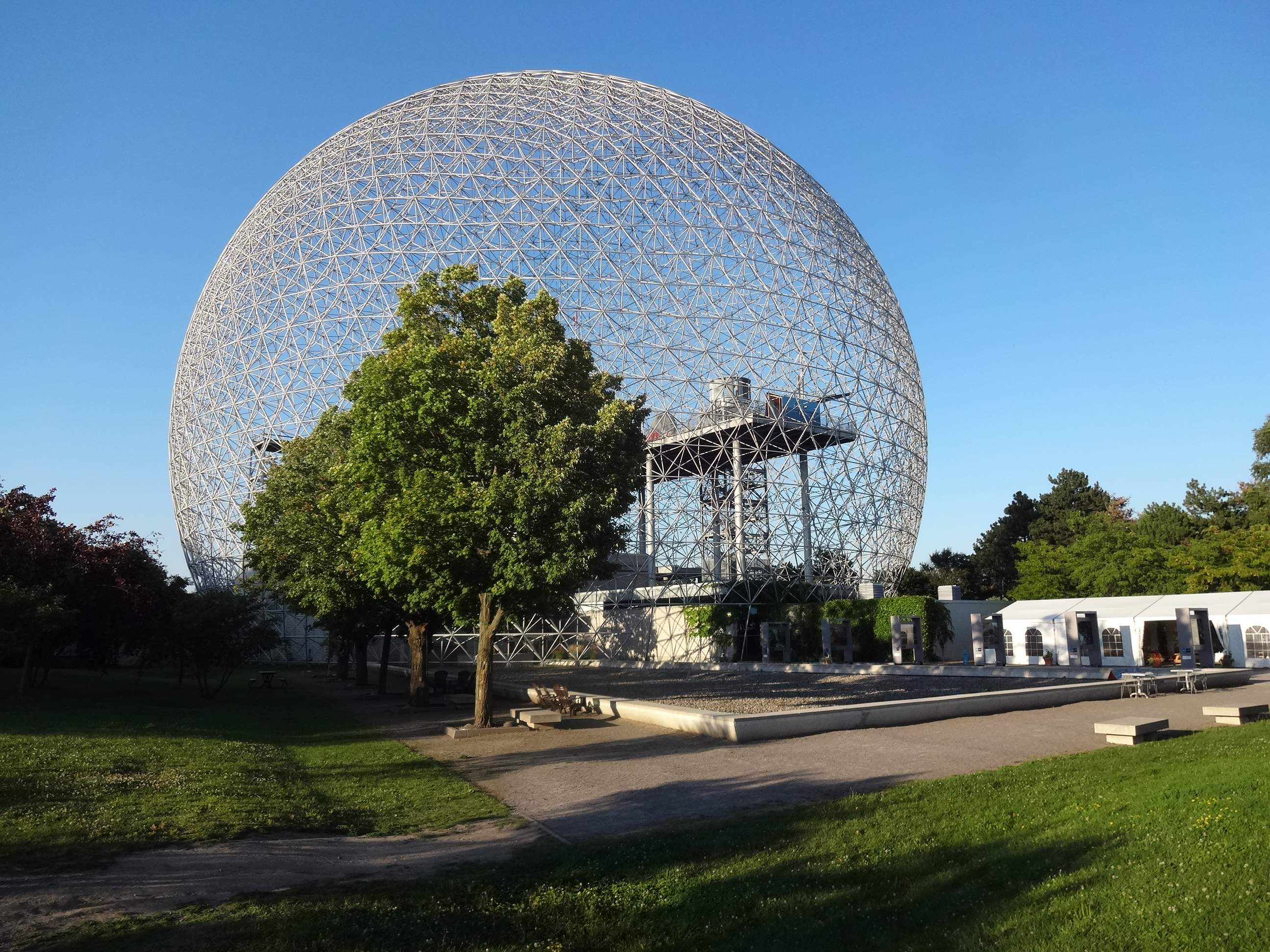 Monument in Montreal.